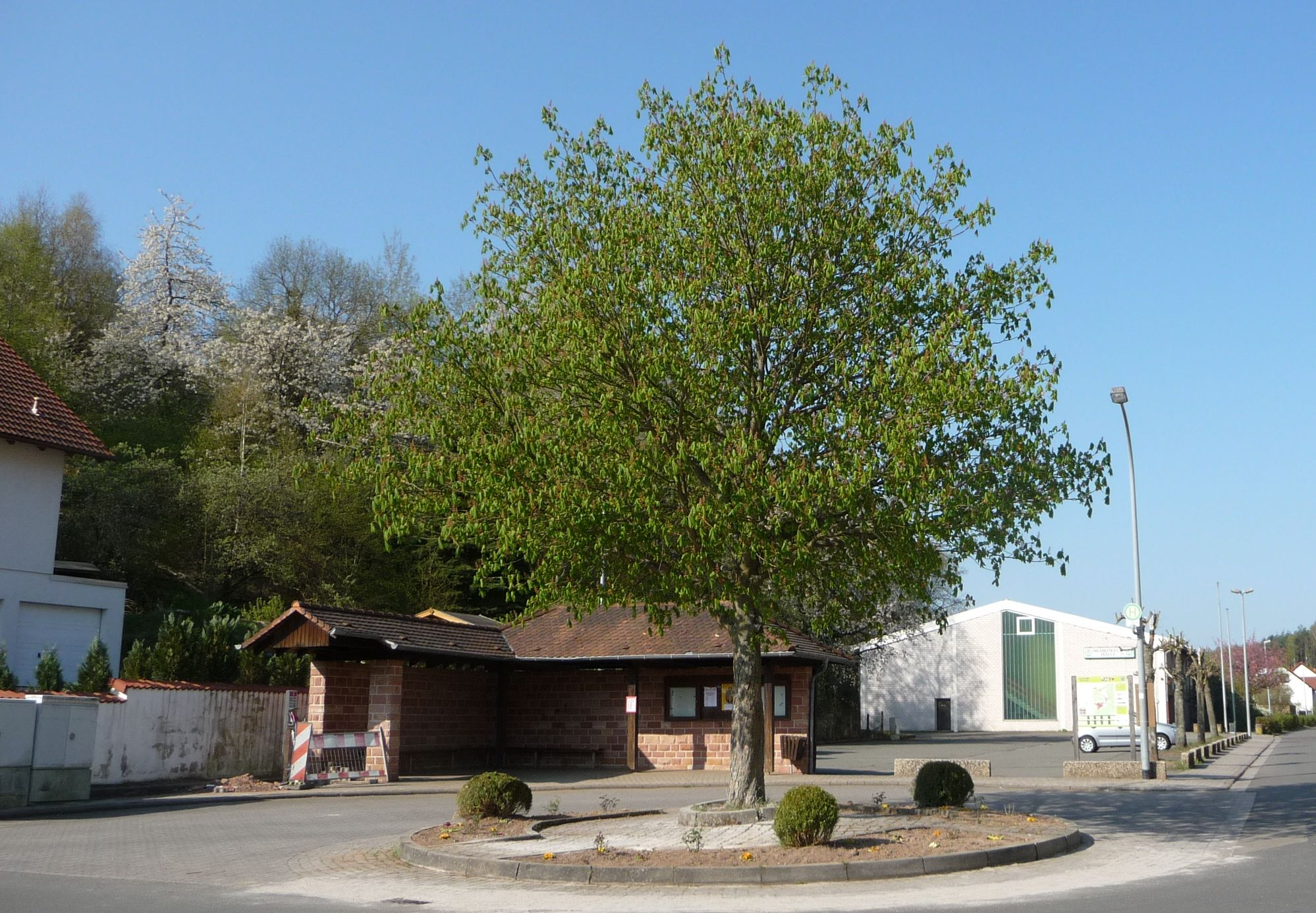 Fischbach (bei Kaiserslautern)